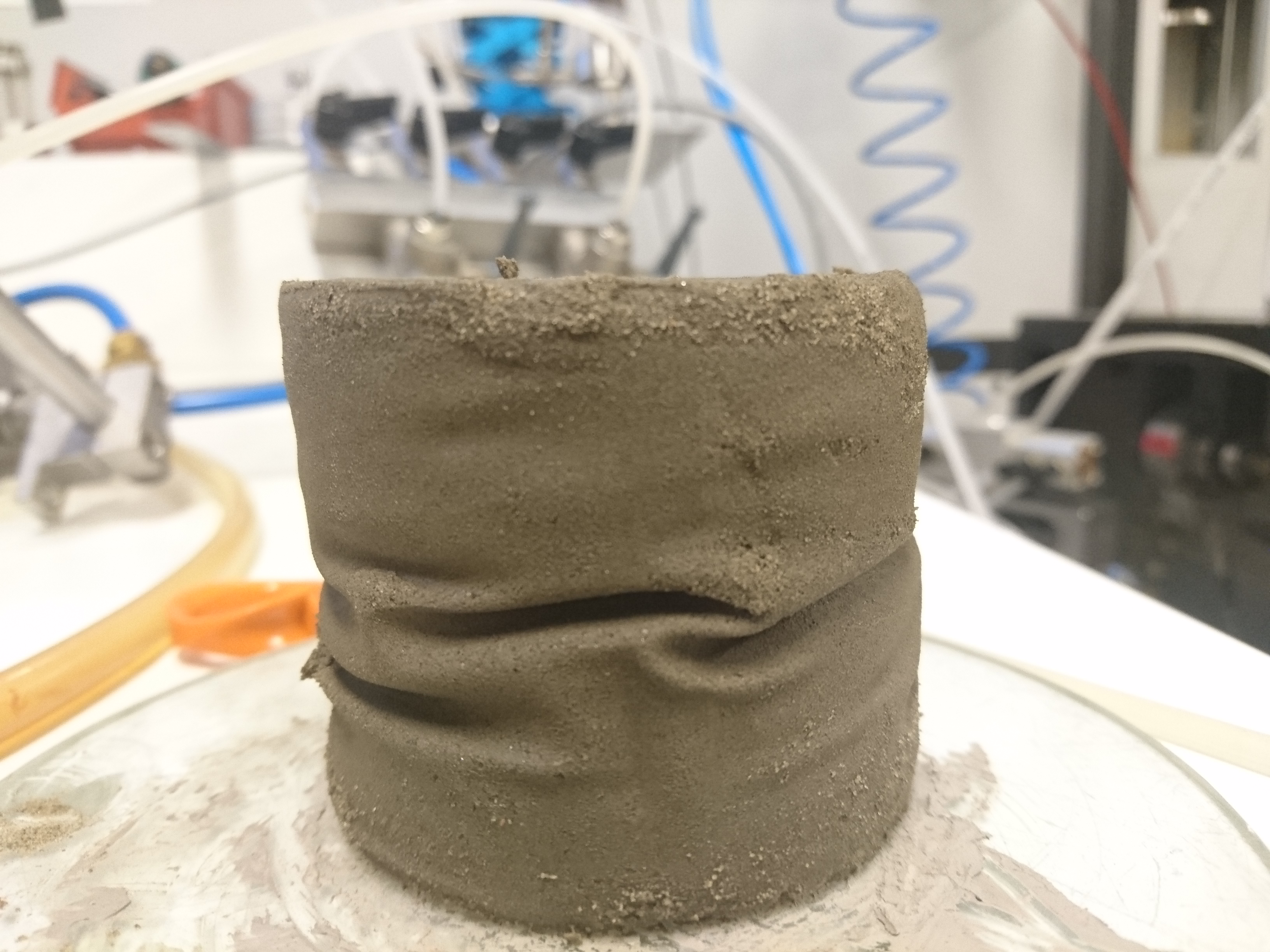 Using the Danish triaxial a triaxial sample was: 1. CU cyclic loaded to liquefaction 2. CU crushed to plastic yield. 3. Pulled to initial length. 4. CU cyclic loaded to recover stiffness 5. Steps 1 to 4 repeated for a couple cycles in effort to find "non liquefiable" density. Unusually large wrinkles formed during the test, as specimen lost a lot of volume. The wrinkles were preserved by manipulating stiffness of the specimen. They show the sample was soft enough to imprint soft wrinkles of thin latex, but the shear friction at the end plates is almost nonexistent, as the sample is not deformed at the tips.